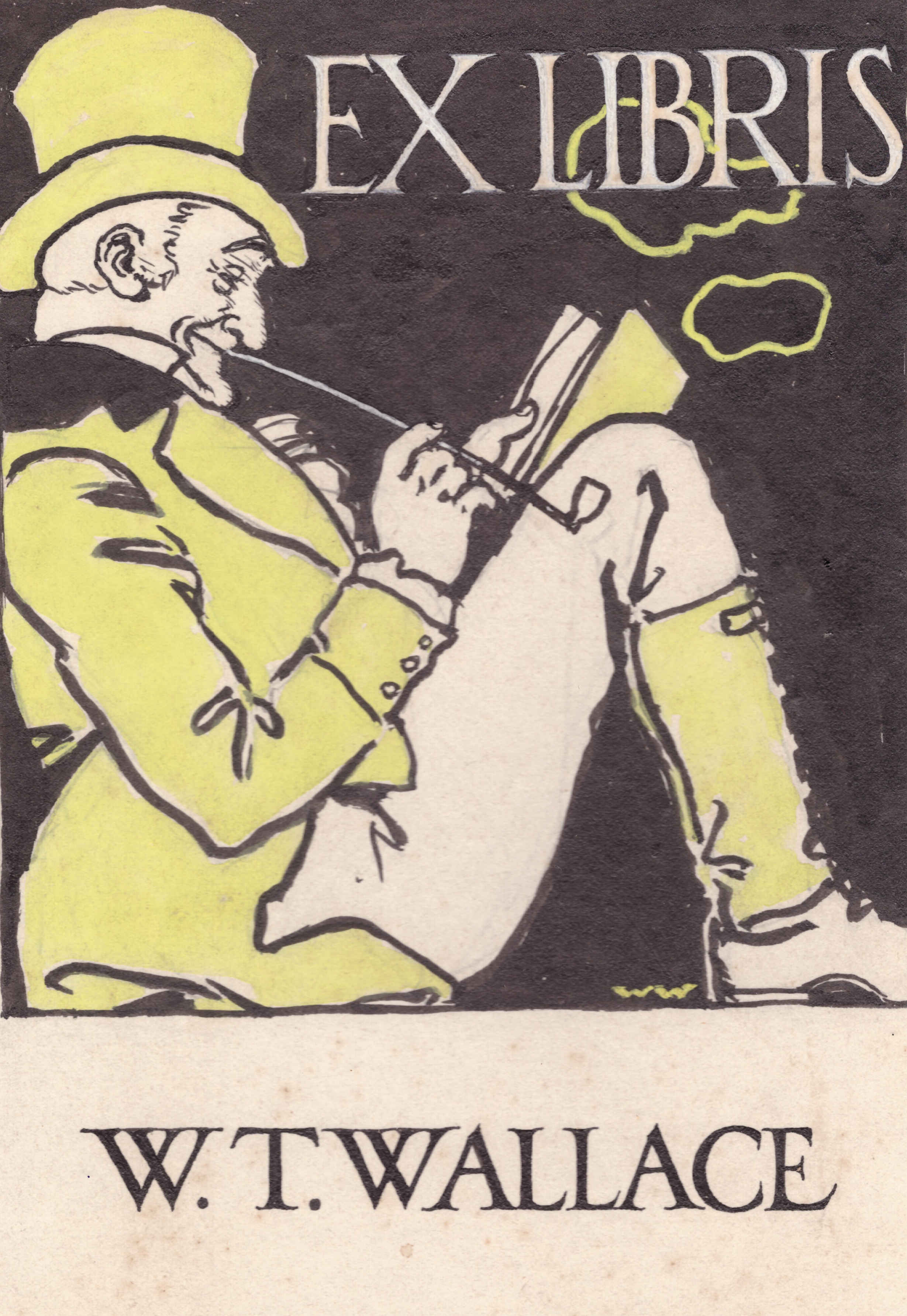 Bookplate belonging to William Tracy Wallace, who illustrated the image as a self-portrait.